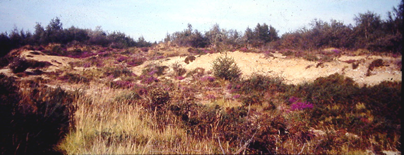 Old photo old. (Late 1980s) : vast expanse of heather moorland at Erica cinerea focused primarily on the relatively dry ground. Location: Western Part of the “Plateau d’Helfaut”, on the border of the current Nature Reserve Landes of Helfaut (one of the old "voluntary" nature reserves, "since become regional nature reserves") in the Region Nord/Pas-de-Calais and one of four of these reserves established in compensatory measuring against the ecological fragmentation effect of the new big road cutting the plateau Helfaut (Natura 2000, Arrêté prefectoral de Biotope).